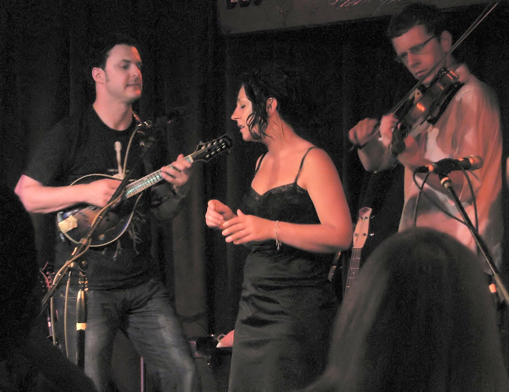 Warner, Carol Young, McLoughlin